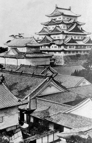 Old Nagoya Castle Keep Tower before its destruction in 1945.